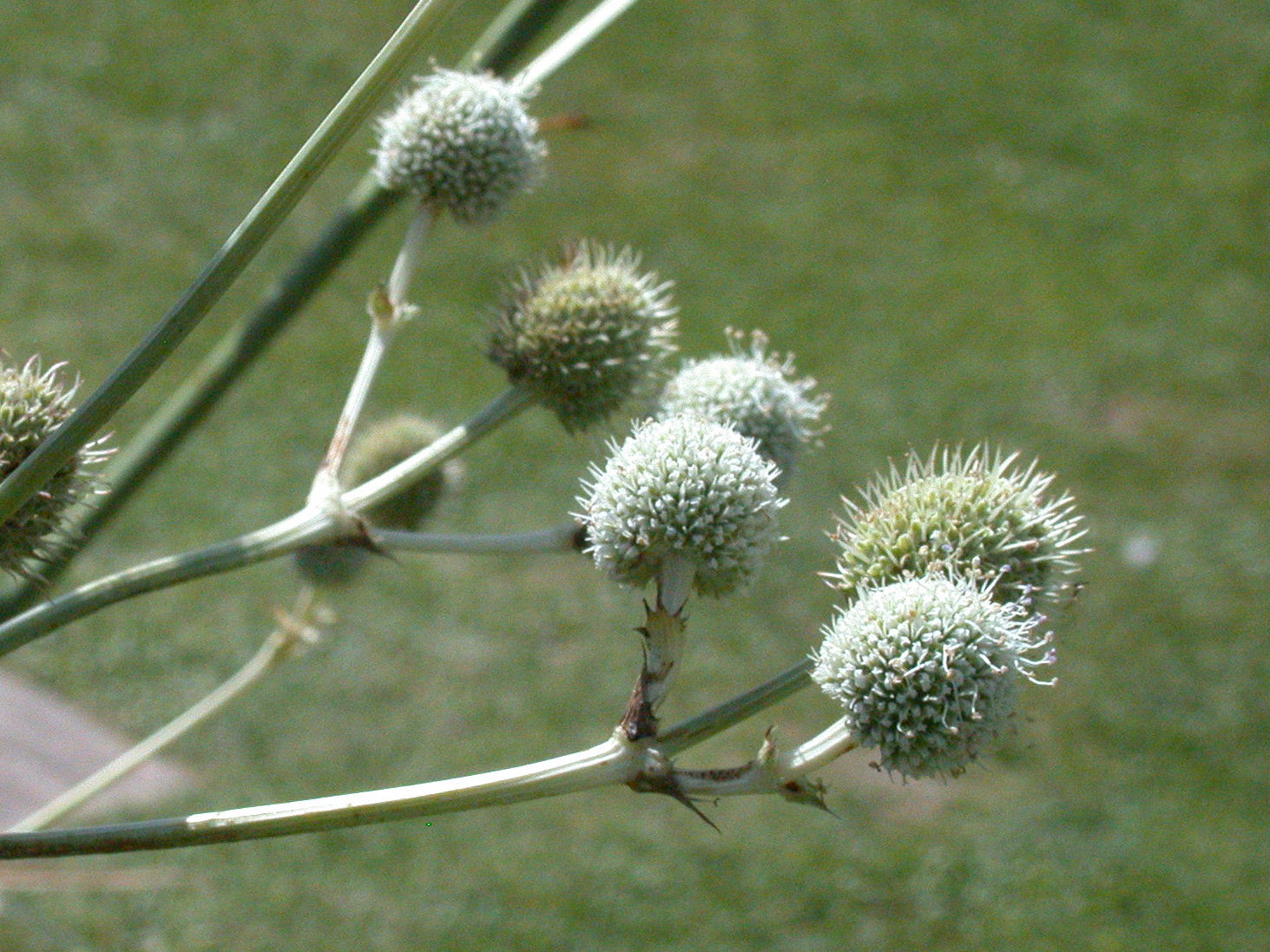 Specimen labelled: "Eryngium eburneum. Umbelliferae. S America."